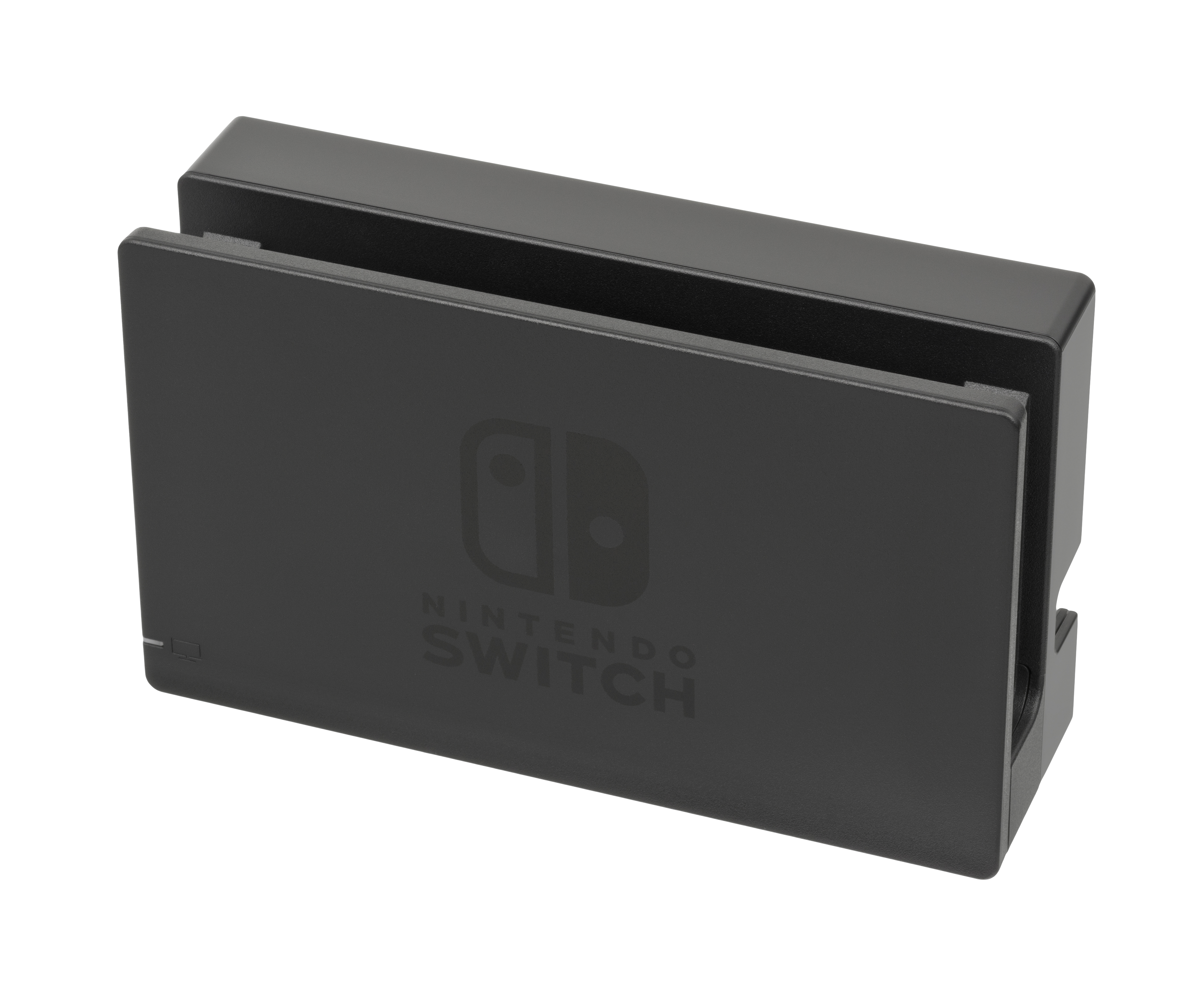 The dock for Nintendo Switch, a hybrid portable/home console released by Nintendo in 2017. This picture shows the dock without the console inserted.